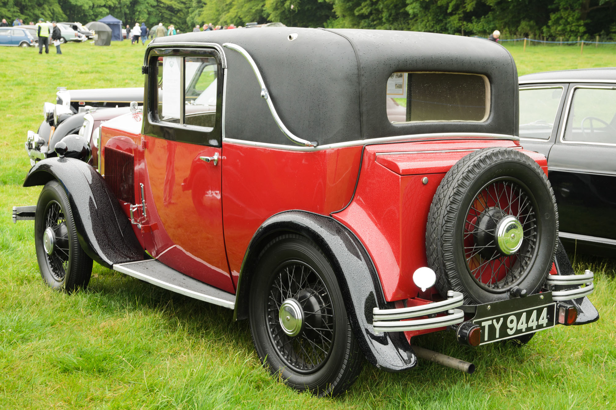 1932 Wolseley Hornet Occasional Four Coupe (DVLA) first registered 15 July 1932, 1208 cc Hoghton Tower Classic Car Show 14/06/2015